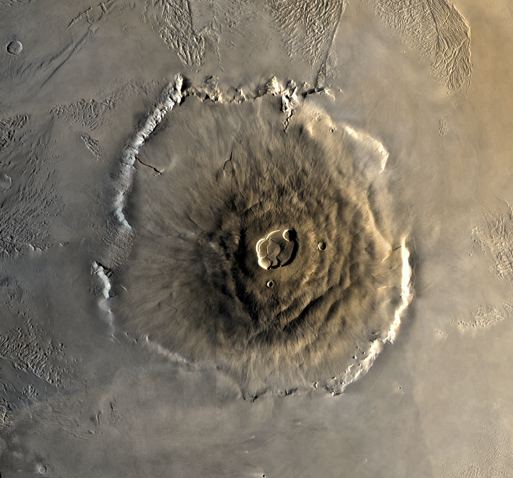 A composite image of Olympus Mons on Mars, the tallest known volcano and mountain in the Solar System.